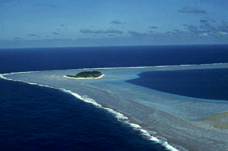 Aerial View of Rose Island (American Samoa) in the Pacific Ocean